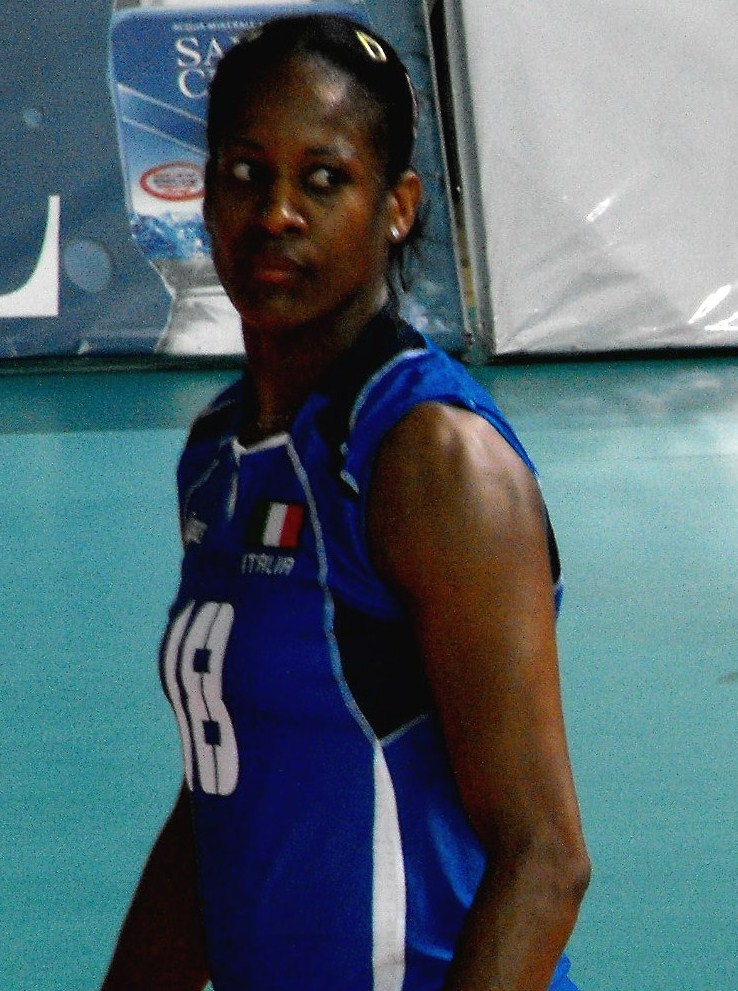 The Italian/Cuban volleyball player Taismary Aguero